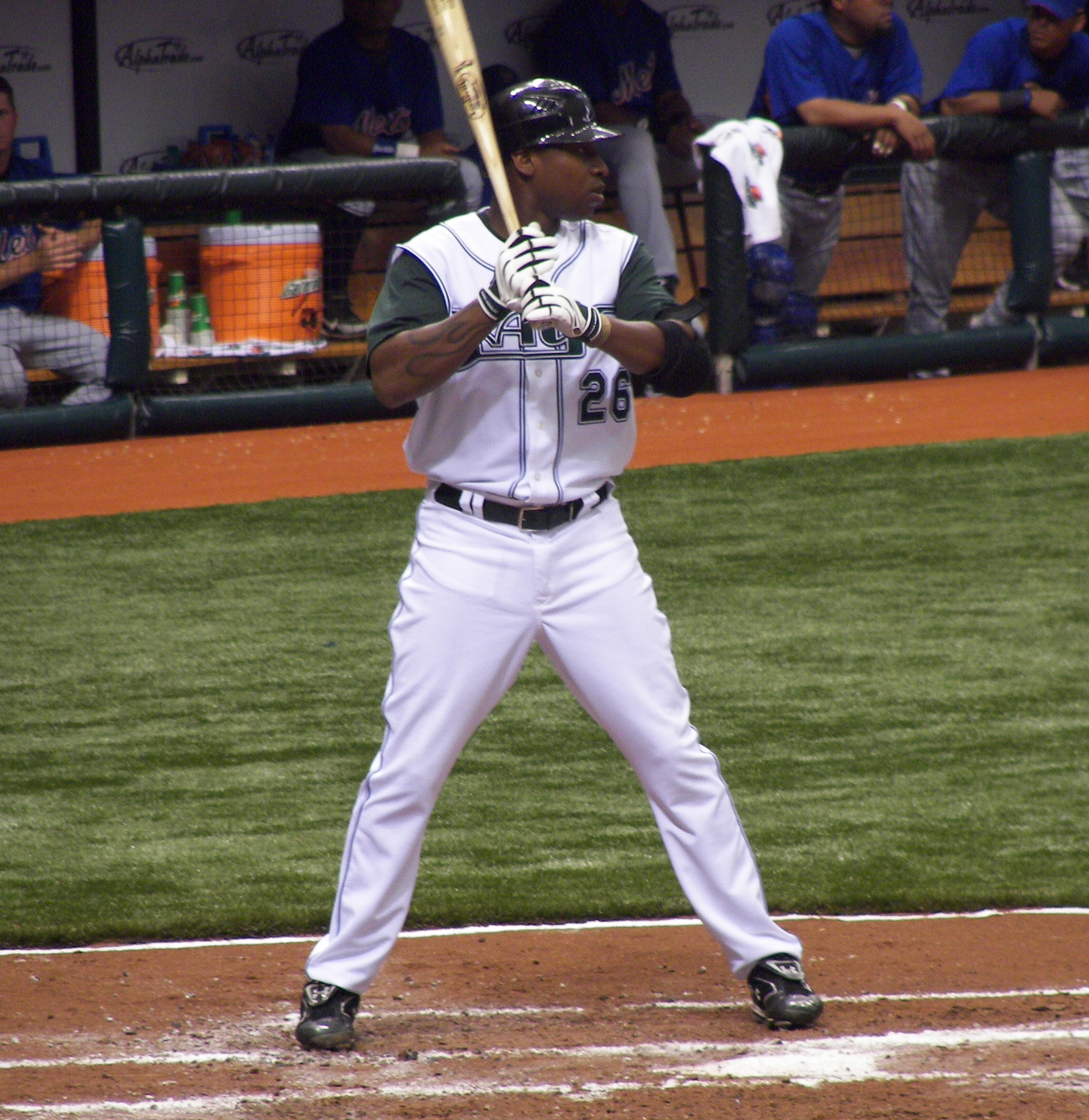 Tampa Bay Devil Rays outfielder Delmon Young during a Devil Rays/Mets spring training game at Tropicana Field in St. Petersburg, Florida.